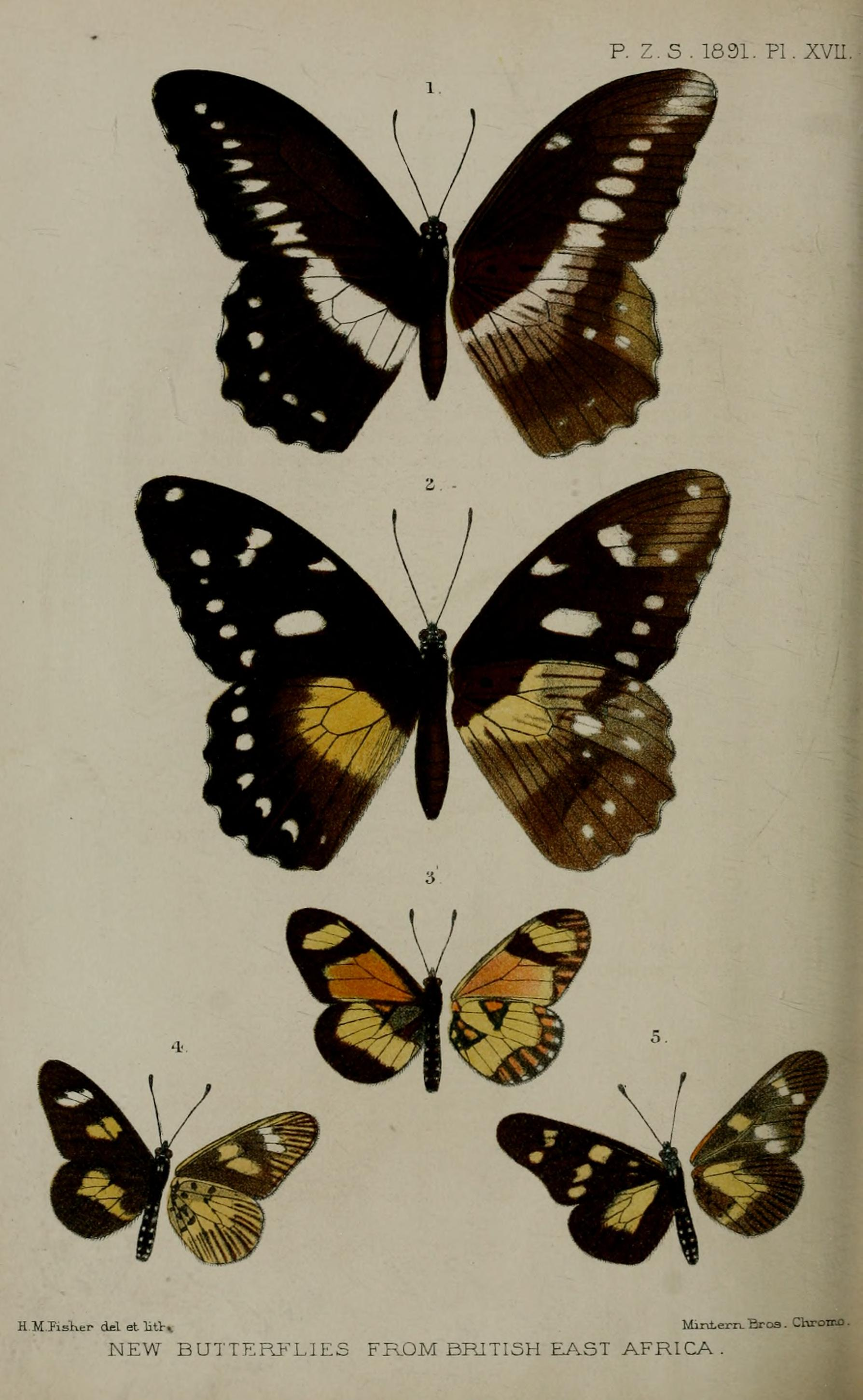 Emily Bowdler Sharpe, 1891 Descriptions of New Butterflies collected by Mr. F. J. Jackson, F.Z.S:, in British East Africa, during his recent Expedition. - Part I & II Proc. Zool. Soc. Lond. 1891 : 187-194, pl. 16-17, : 633-638. Plate 17 1 Papilio jacksoni male Papilio jacksoni Sharpe, 1891 2 Papilio jacksoni female 3 Acraea excelsior Acraea excelsior Sharpe, 1891 4 Acraea melanoxantha Acraea melanoxantha Sharpe, 1891 5 Acraea oreas Acraea oreas Sharpe, 1891